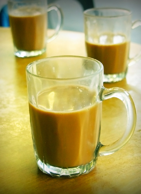 A glass of teh halia (ginger tea) at the Tanjong Pagar Railway Station, Singapore.